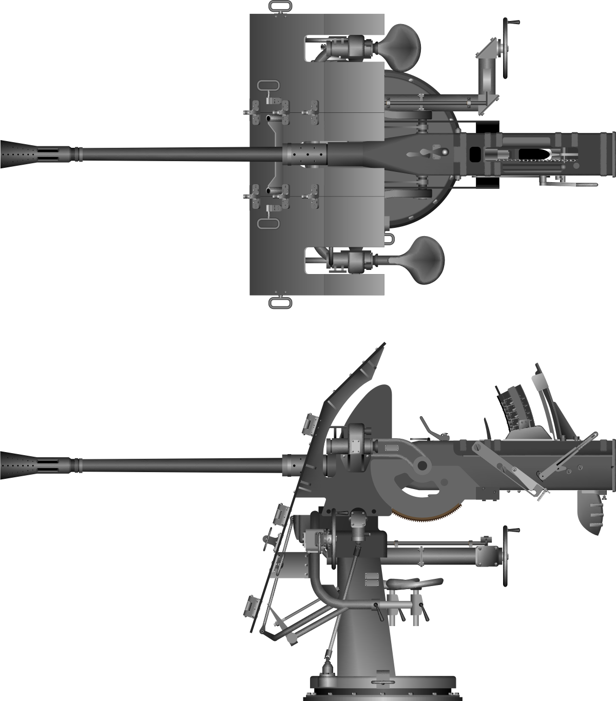 Single 3.7 cm Flakzwilling M43U on a LM 42U mount. The 3.7cm Flak M42U was the marine version of the 3.7 cm Flak 43 used by the 'Kriegsmarine on Type VII and Type IX U-boats